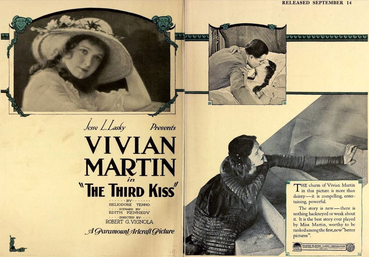 Ad for the American film The Third Kiss (1919) with Vivian Martin, on page 852 of the August 2, 1919 Motion Picture News.